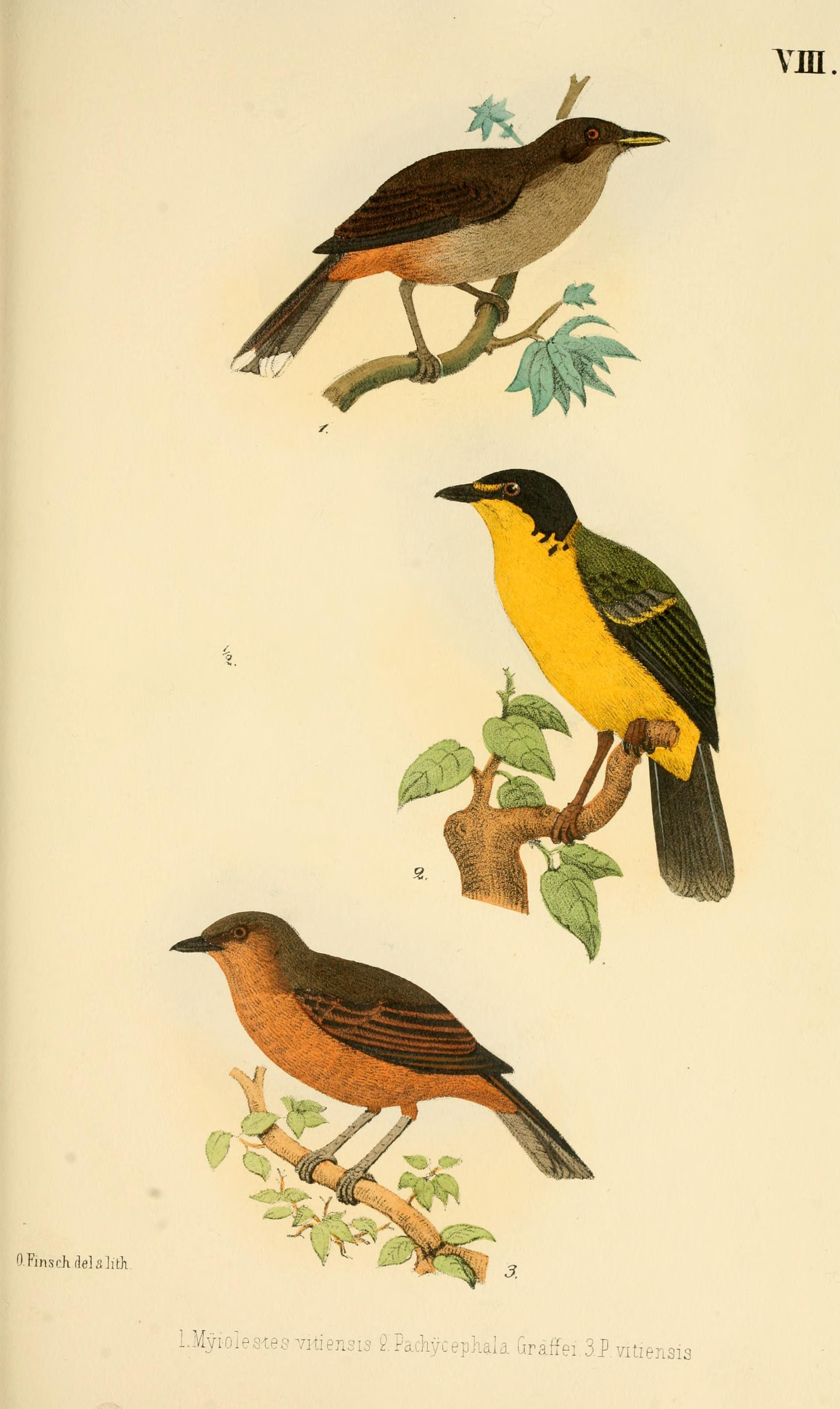 Hartlaub and Finsch Beitrag zur fauna Centralpolynesiens. Ornithologie der Viti, Samoa und Tongainseln Plate 8 Tafel VIII. Fig. 1. Myiolestes vitiensis. Hartl. (Mus. Godeffroy) Valid name Clytorhynchus vitiensis (Hartlaub, 1866) Fig 2. Pachycephala Gräffei. Hartl. Bremer Mus.) Valid name Pachycephala graeffii Hartlaub 1866 Fig. 3. P vitiensis. Gray (Mus. Godeffroy) Valid name Pachycephala vitiensis Gray, 1860